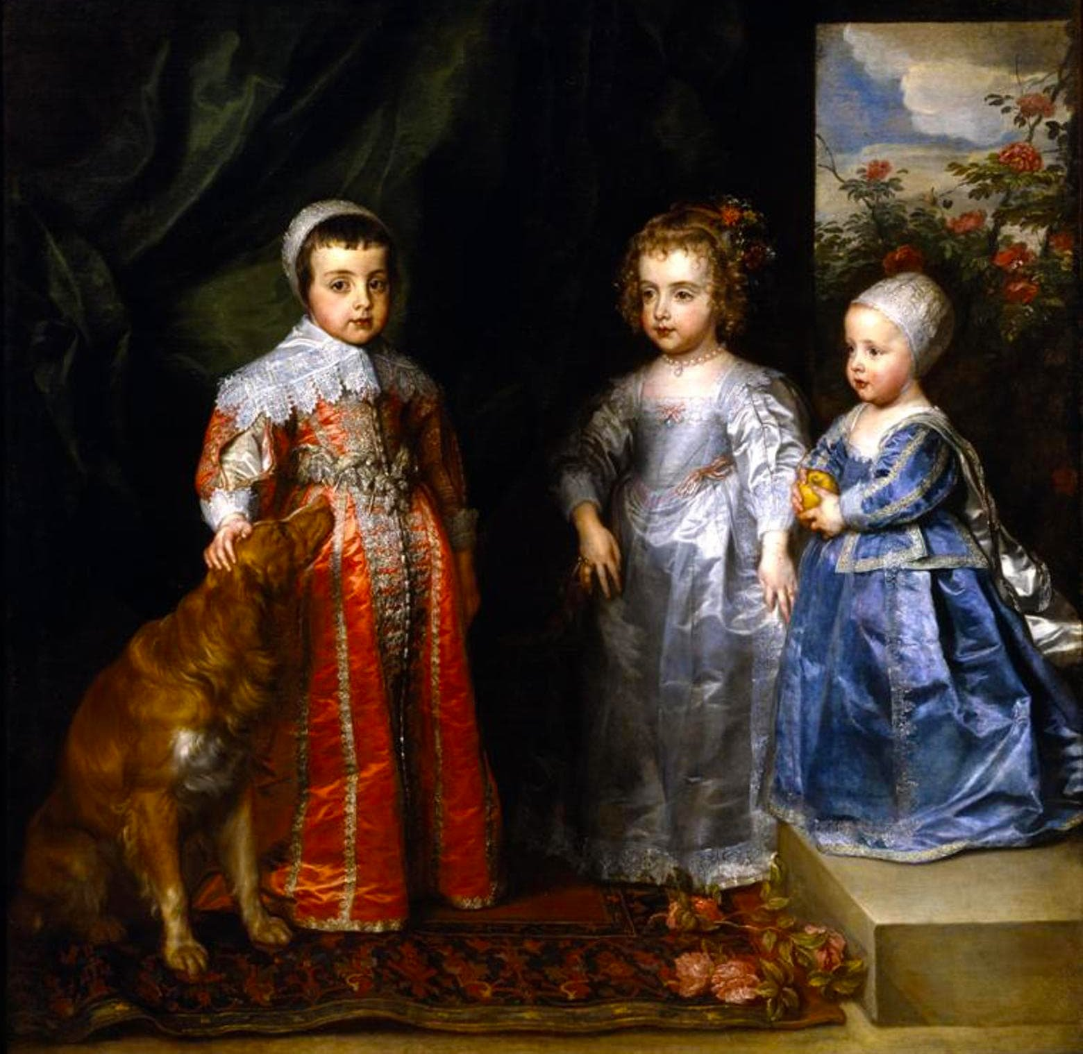 The three oldest children of Charles I Stuart (1600-1649) and Henrietta Maria de Bourbon (1609-1669), Charles (1630-1685), Mary (1631-1666) and James (1633-1685)